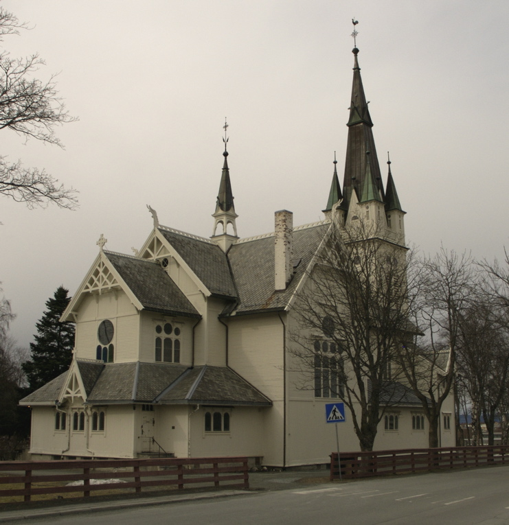 Moholt or as it is known now - Strinda church - built 1900.